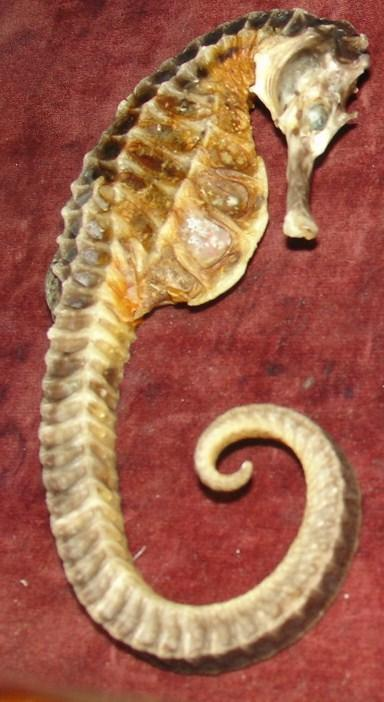 big-belly seahorse or pot bellied seahorse